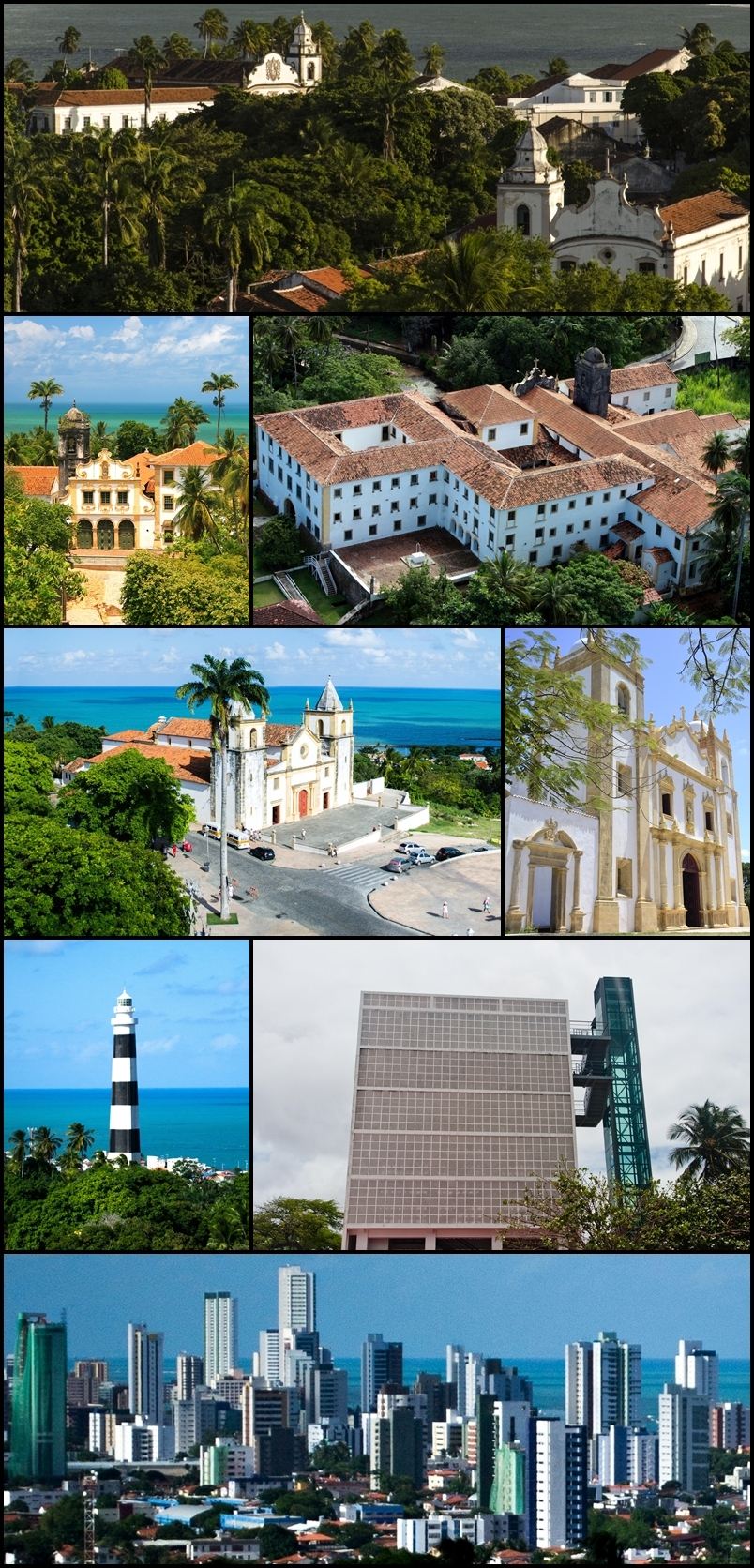 From upper left: Olinda with Recife in the background; San Francisco Convent; Church of Our Lady of the Snows, Saint Roch Chapel and San Francisco Convent; Se Church; Church of Carmo; The lighthouse of Olinda; The Olinda Lift; and Modern Olinda.